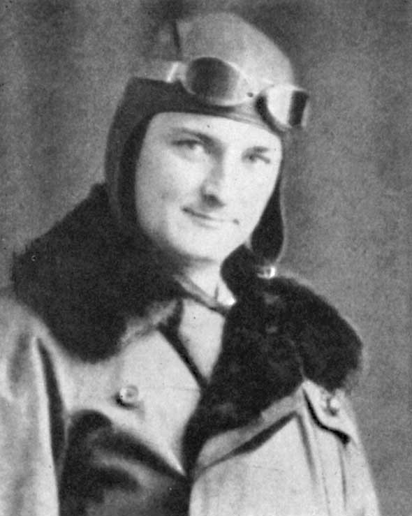 Photo #: NH 82991 Gunnery Sergeant Robert G. Robinson, USMC Halftone reproduction of a photograph, copied from the official publication "Medal of Honor, 1861-1949, The Navy", page 124. Robert G. Robinson was awarded the Medal of Honor for his "extraordinary heroism" during air raids in which he was wounded over Pittham, Belgium, October 1918. U.S. Naval Historical Center Photograph.